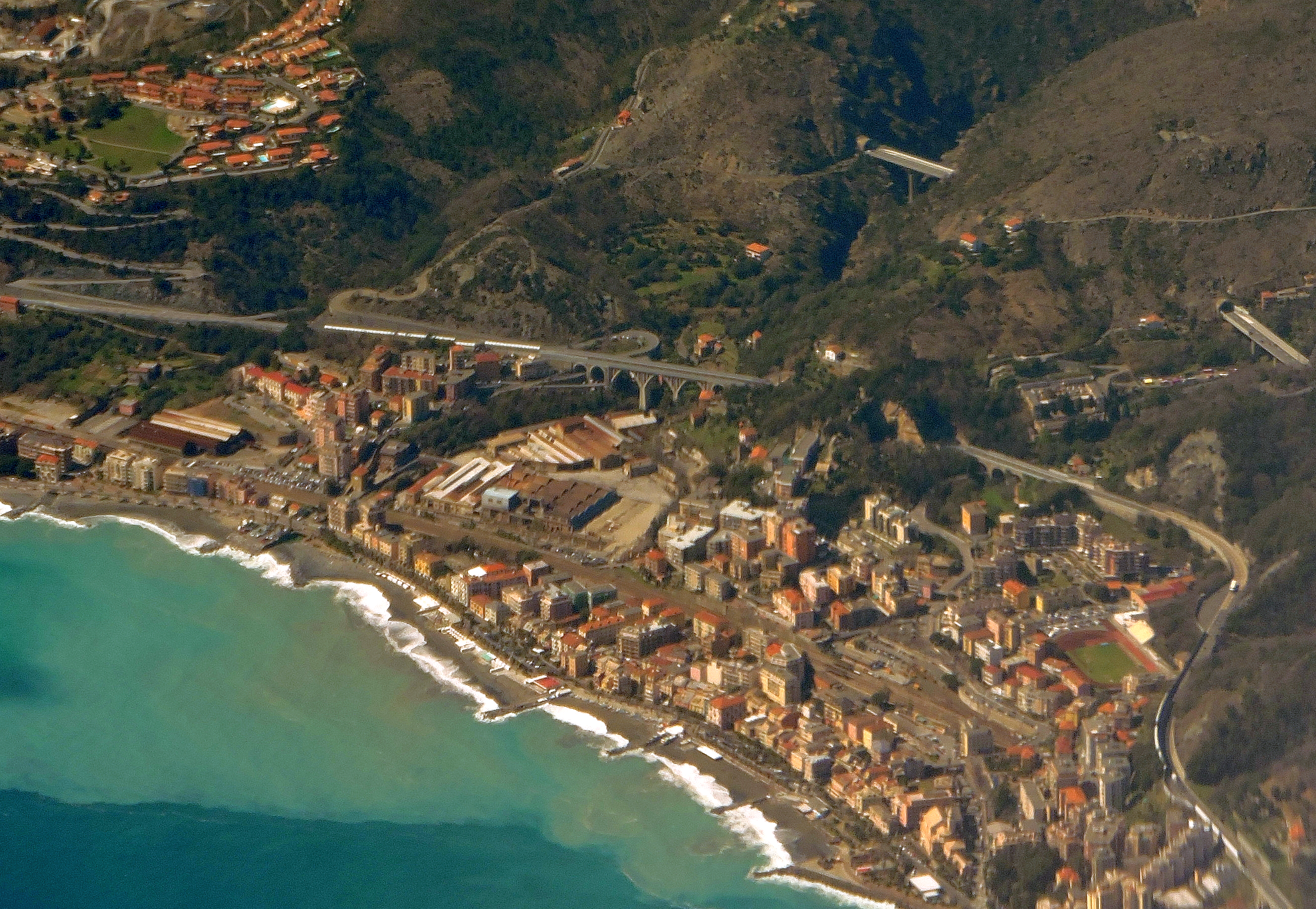 Cogoleto (GE, Italy): aerial view